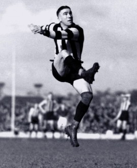 Photograph of Alby Pannam from 1933-1937